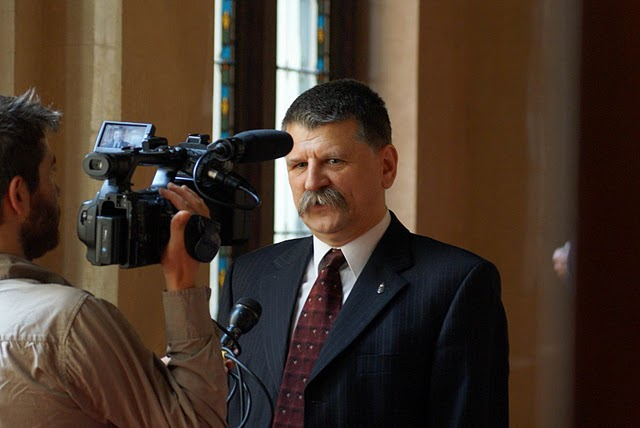 Kövér László a Parlament folyosóján 2010. május 29-én, immár rövid hajjal.